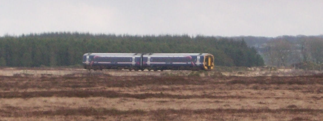 Unit 158725 in First Scotrail Colours heading towards Wick on the Far North Line